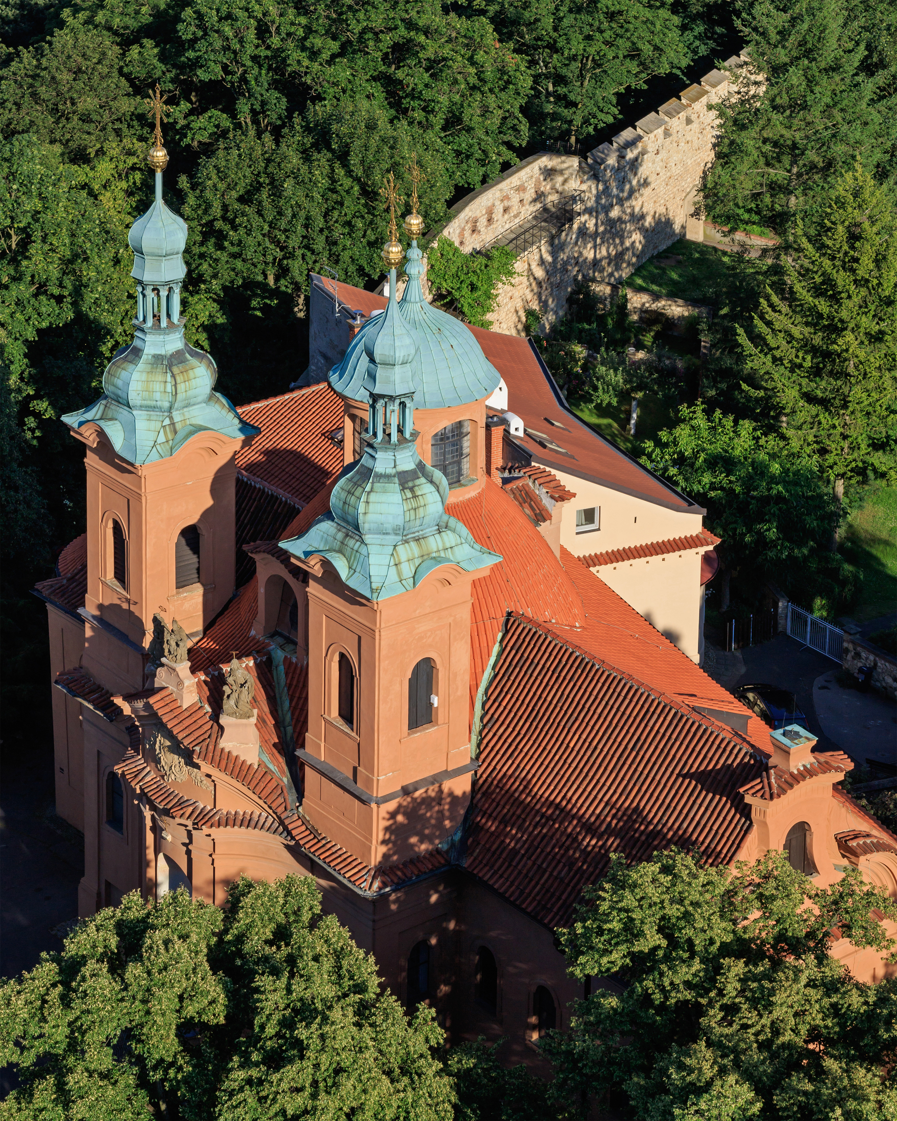 View from Petřín Lookout Tower in Prague (Czech Republic) – Church of St. Lawrence